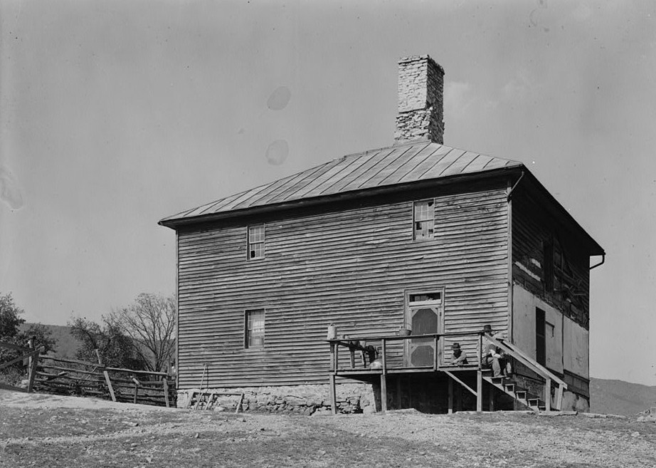 Fort Egypt, State Route 615, Luray vicinity (Page County, Virginia) cropped HABS VA,70-LURA.V,2-1 This file comes from the Historic American Buildings Survey (HABS), Historic American Engineering Record (HAER) or Historic American Landscapes Survey (HALS). These are programs of the National Park Service established for the purpose of documenting historic places. Records consist of measured drawings, archival photographs, and written reports. When reusing please credit: Library of Congress, Prints & Photographs Division, VA-200 This tag does not indicate the copyright status of the attached work. A normal copyright tag is still required. See Commons:Licensing for more information. This work is in the public domain in the United States because it is a work prepared by an officer or employee of the United States Government as part of that person’s official duties under the terms of Title 17, Chapter 1, Section 105 of the US Code. See Copyright. Note: This only applies to original works of the Federal Government and not to the work of any individual U.S. state, territory, commonwealth, county, municipality, or any other subdivision. This template also does not apply to postage stamp designs published by the United States Postal Service since 1978. (See § 313.6(C)(1) of Compendium of U.S. Copyright Office Practices). It also does not apply to certain US coins; see The US Mint Terms of Use. This file has been identified as being free of known restrictions under copyright law, including all related and neighboring rights.